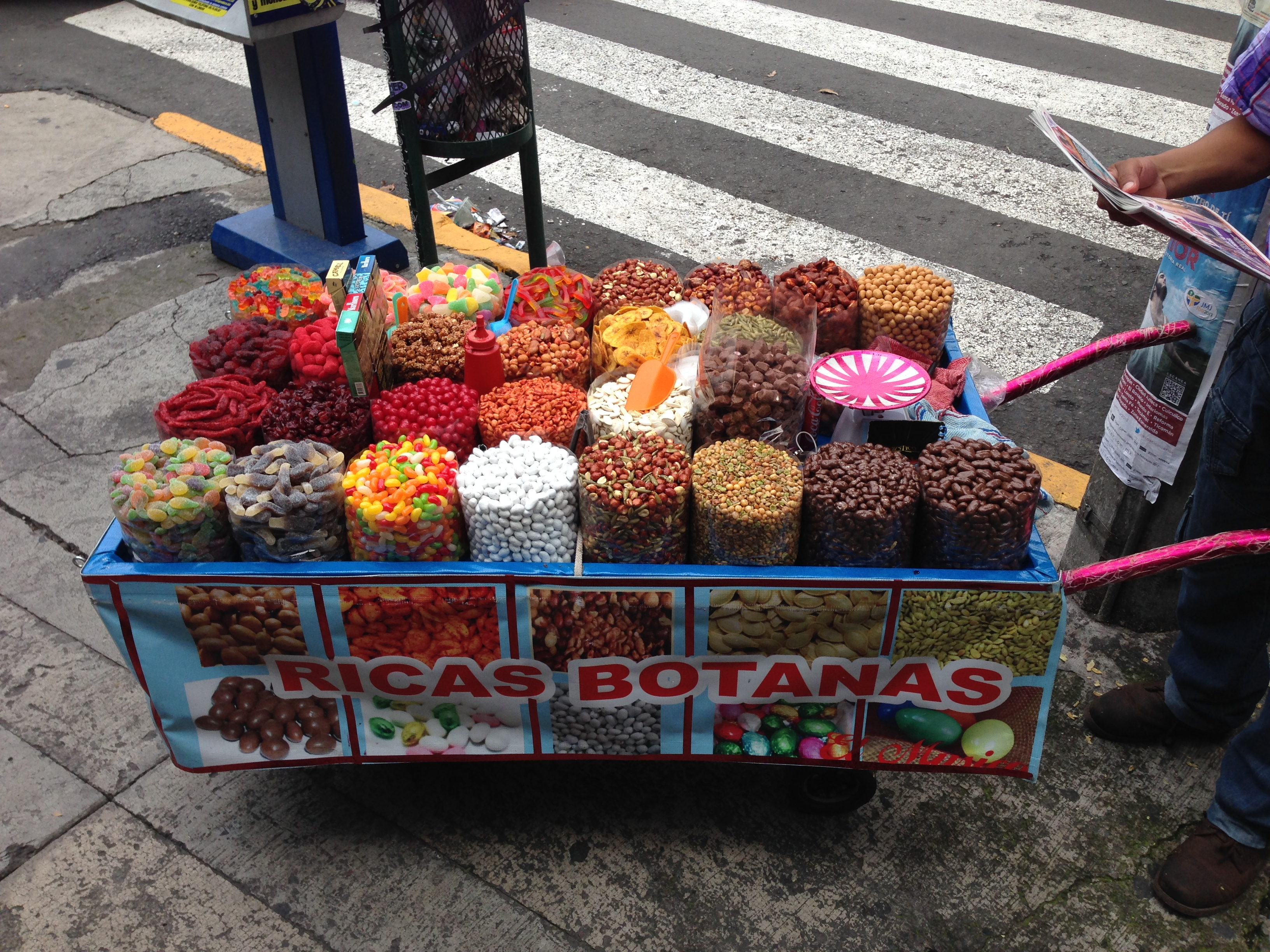 Candy sold from pushcart, Mexico City, 2014